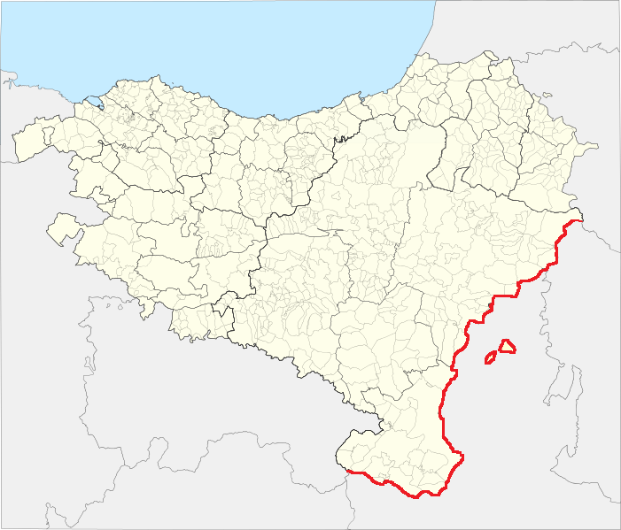 Basque Country-Aragon border